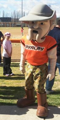 Canberra Cavalry baseball team mascot, "Sarge".